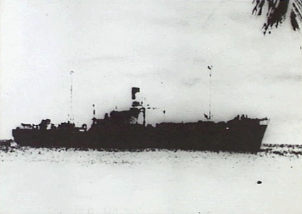 AWM caption : "THE GERMAN RAIDER "KOMET" WHICH OPERATED WITH SUCCESS IN THE PACIFIC OCEAN (WHERE SHE SANK ALLIED MERCHANT SHIPPING AND SHELLED THE PHOSPHATE LOADING PLANT AT NAURU), AND IN THE INDIAN OCEAN AND THE GALAPAGOS ISLANDS. THE "KOMET", STARTING A SECOND CRUISE IN 1942-10, AFTER HER RETURN TO GERMANY, WAS SUNK BY BRITISH DESTROYERS OFF CAPE DE LA HAGUE."